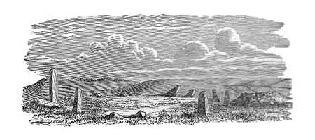 Boskednan Circle and Barrow - Cornwall - UK